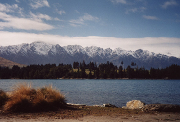 Queenstown - Remarkables